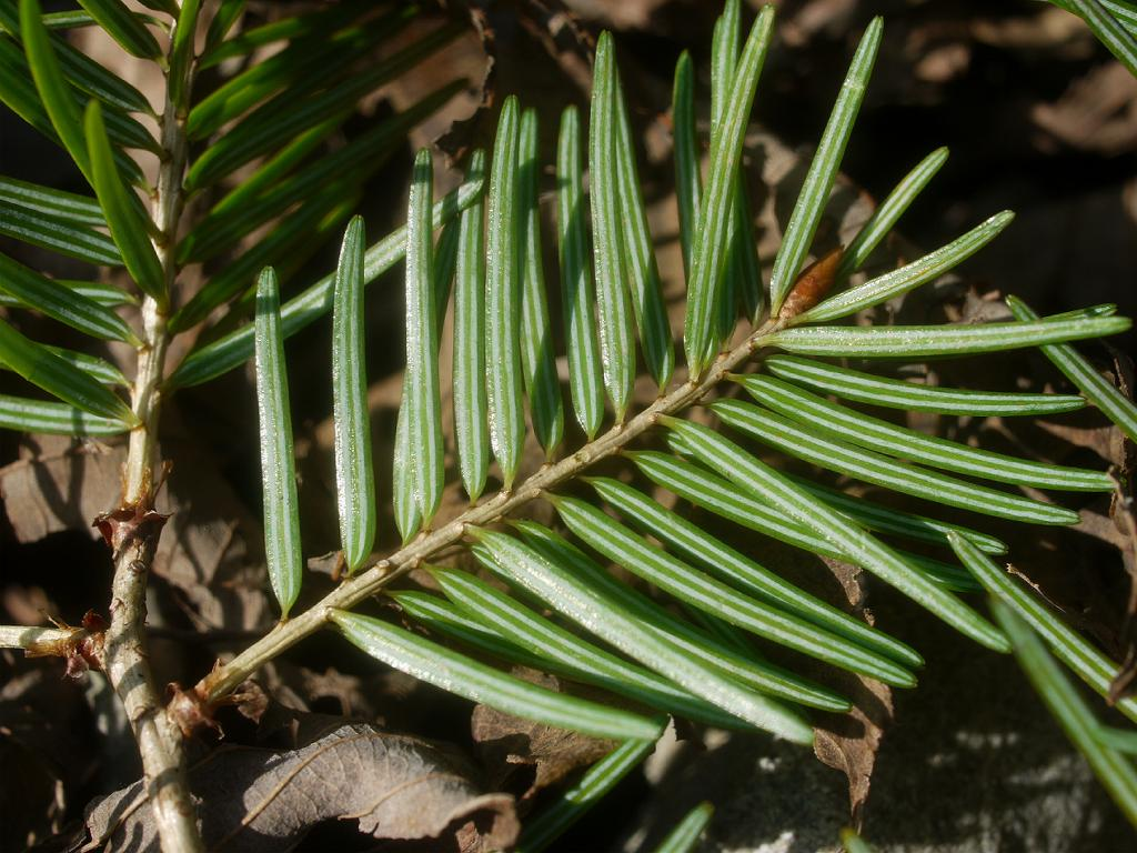 Pseudotsuga japonica (Pinaceae) Japanese name: togasawara ：トガサワラ Date; 2009-11-15; Tanabe City, Wakayama prefecture, Japan Author; Keisotyo